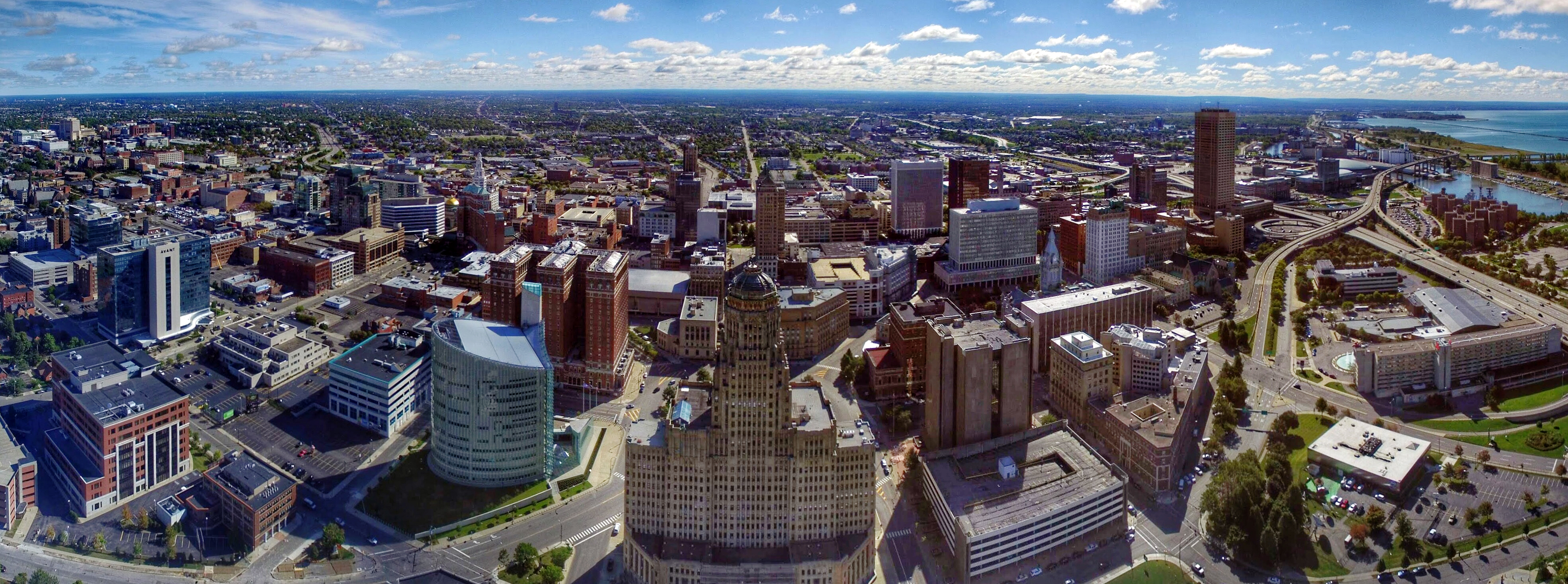 Buffalo, NY Panorama